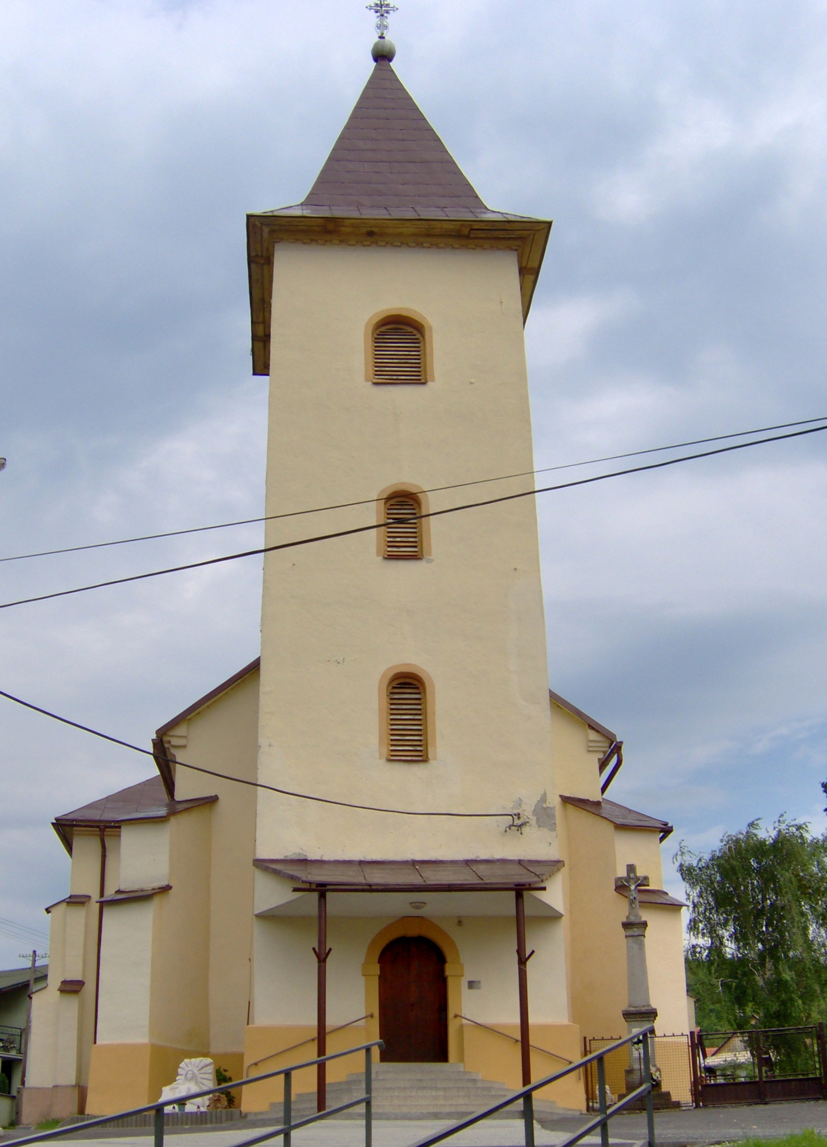 Tekovská Breznica, church